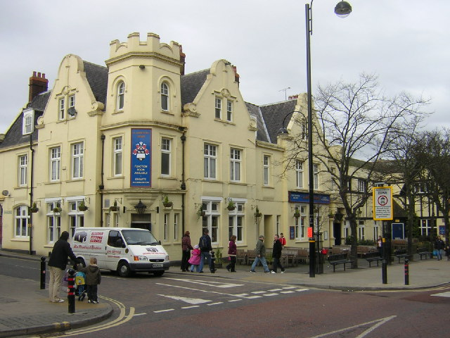 Lambton Arms Public House Chester-le-Street.